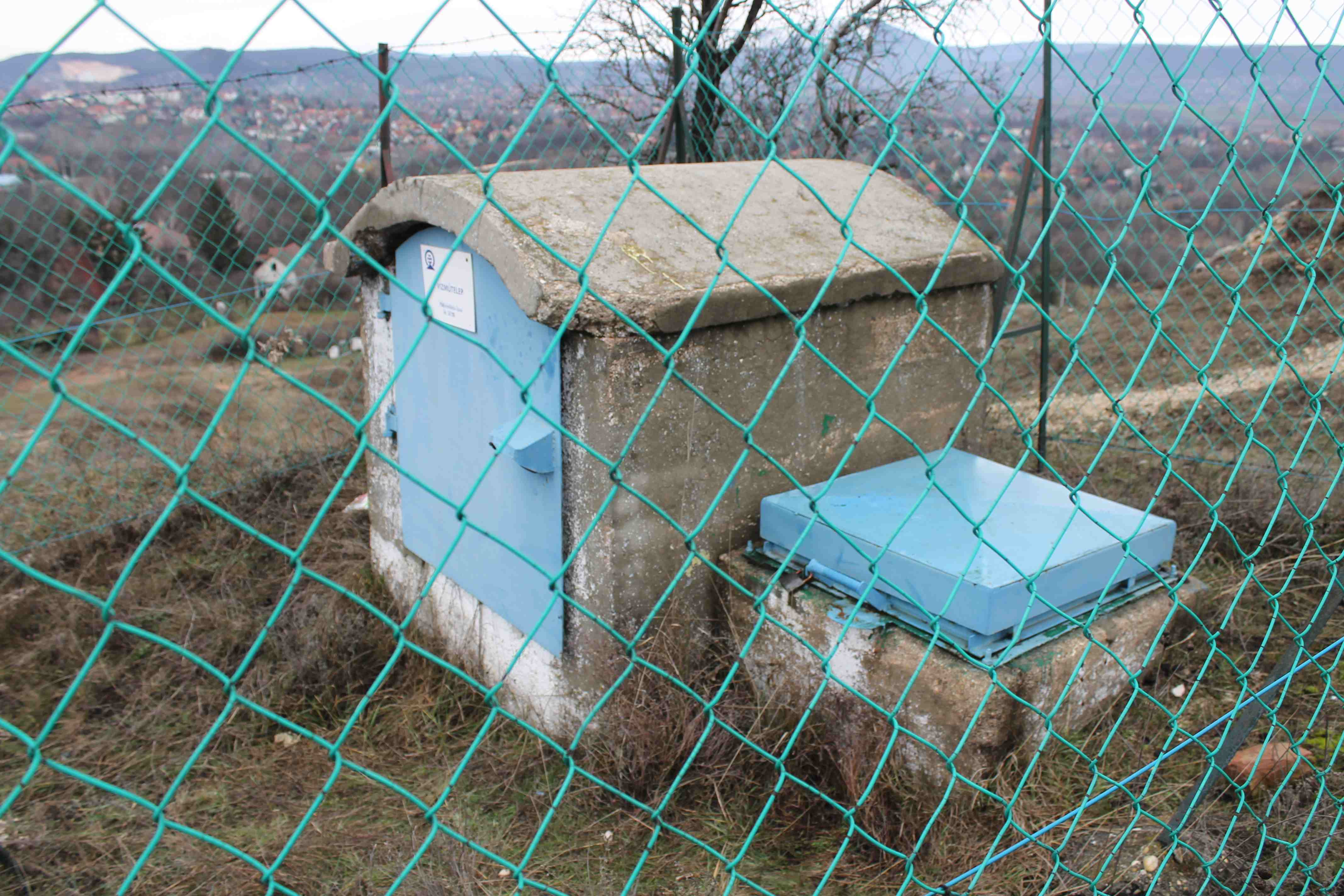 Mélyfúrású ipari kút a Szél-hegyen